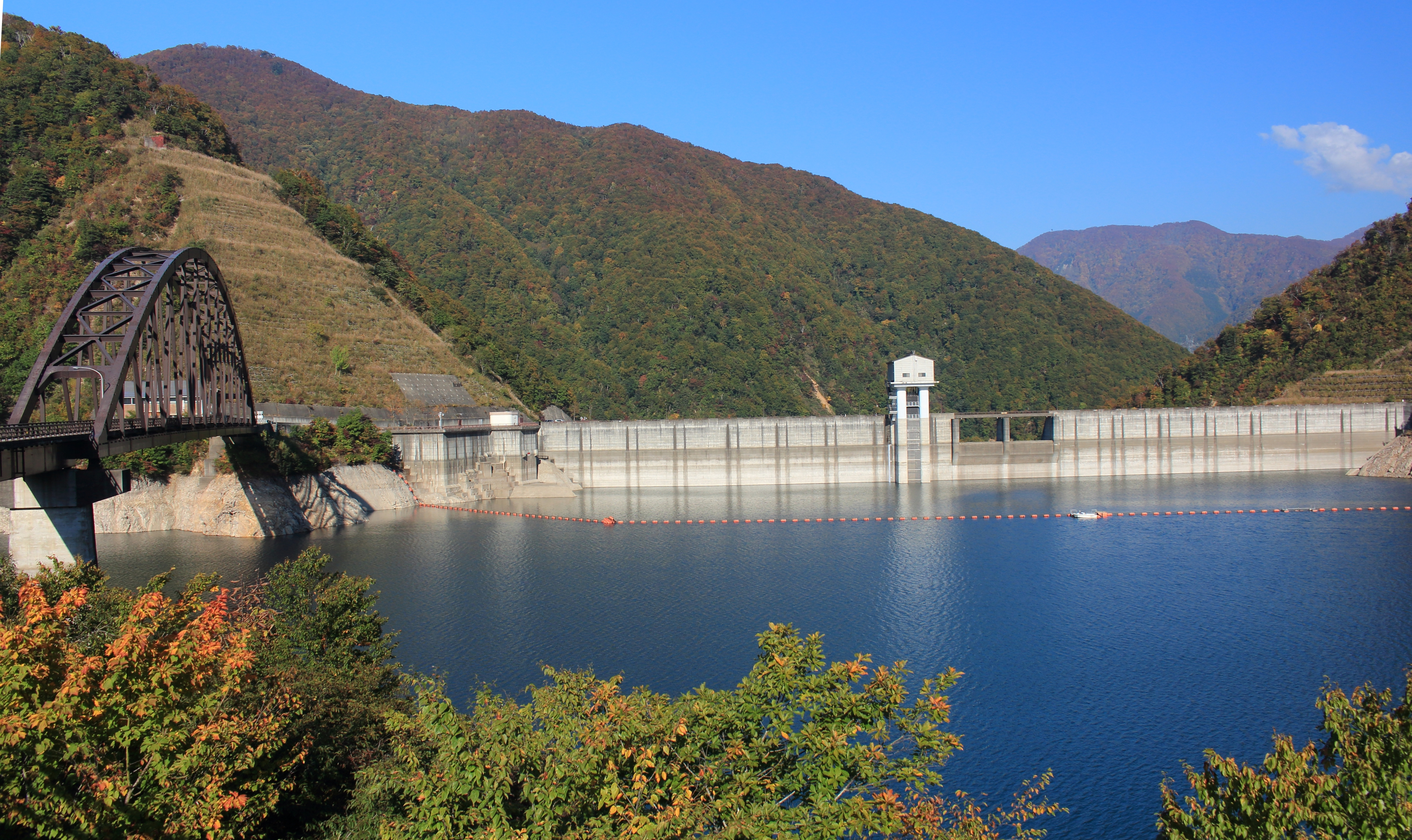 Sakaigawa Dam in Nanto, Toyama prefecture and Shirakawa, Gifu prefecture, Japan.